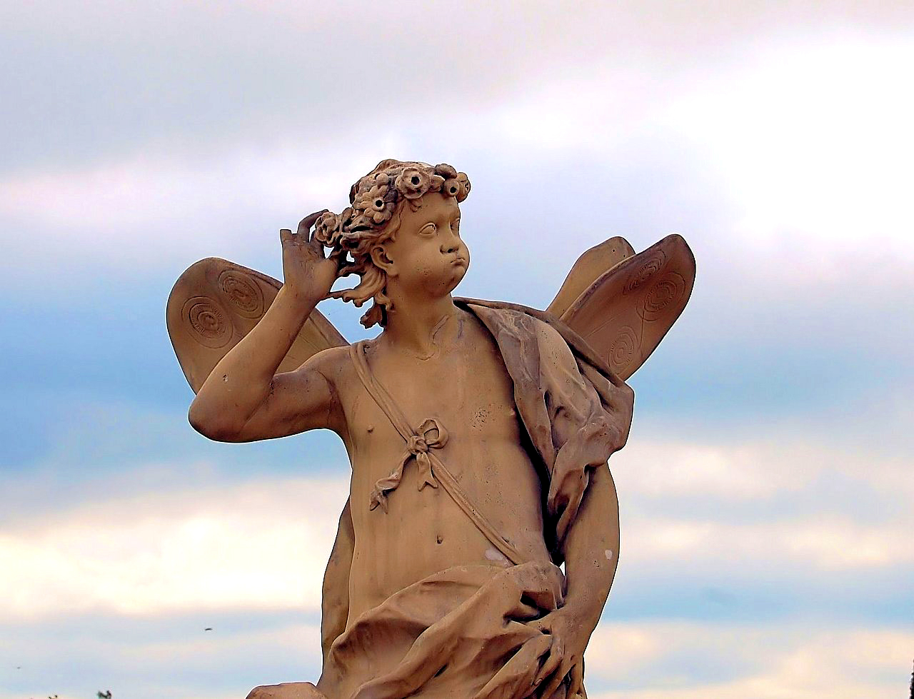 Zephyrus (Zefir) statue by Antonio Bonazza, 1757 at Upper Gardens of Peterhof